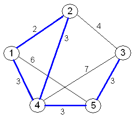 Example The travelling salesman problem (TSP) tree seartch